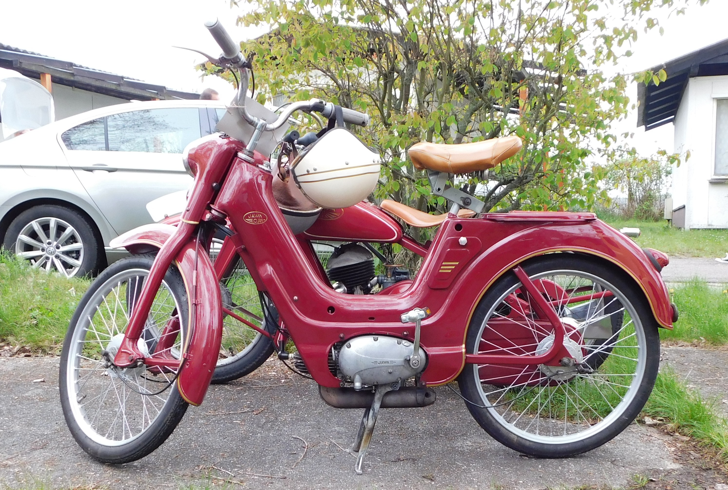 Jawa 50/551 Jawetta Standard during Veteran Rallye Křivonoska